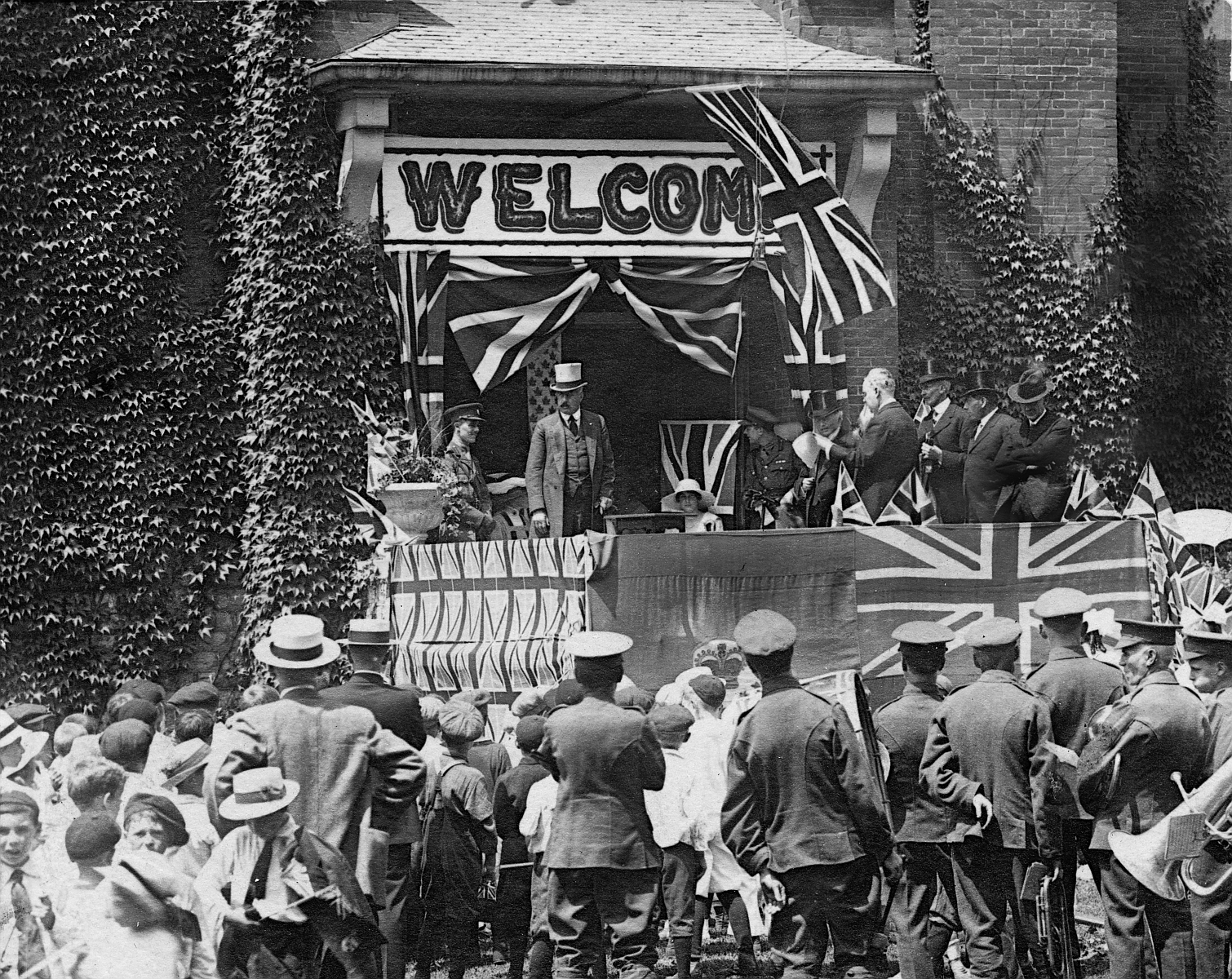 Salvation Army Citadel, Belleville, Ontario. This shows the entrance with a welcome sign above. E. Guss Porter is at left on the platform. The welcome is for the Duke of Devonshire. The words "across from Old Court House" are written on the back.